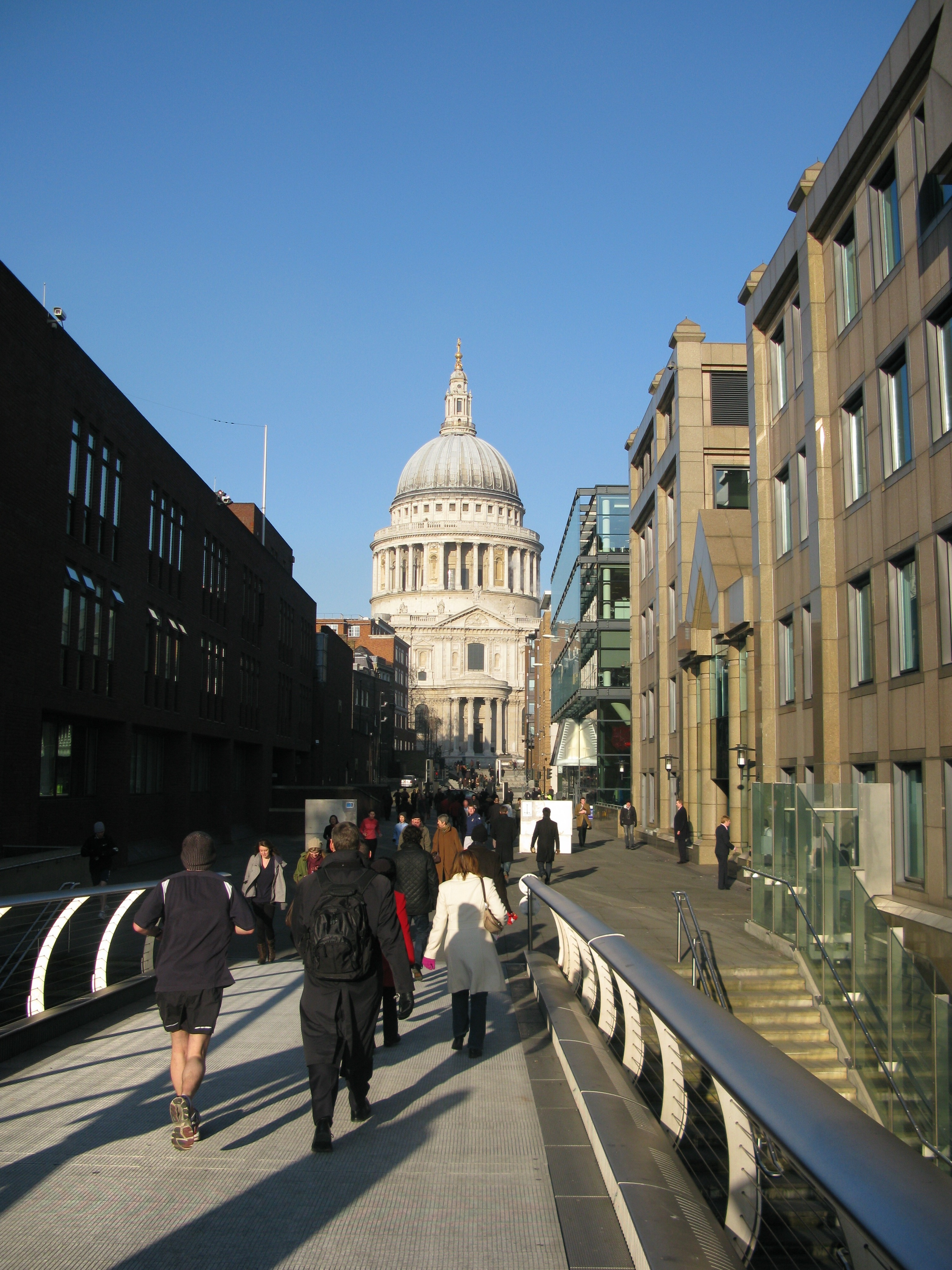 At the end of the Millennium Bridge and the beginning of the small street "Peter's Hill" facing St. Paul's Cathedral in London, Great Britain.